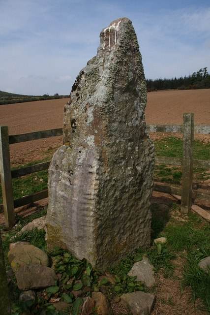 Ogham Stone Ogham stone,showing incisions on corner, at Fiddaun Upper, about 4Km from Inistiogue.